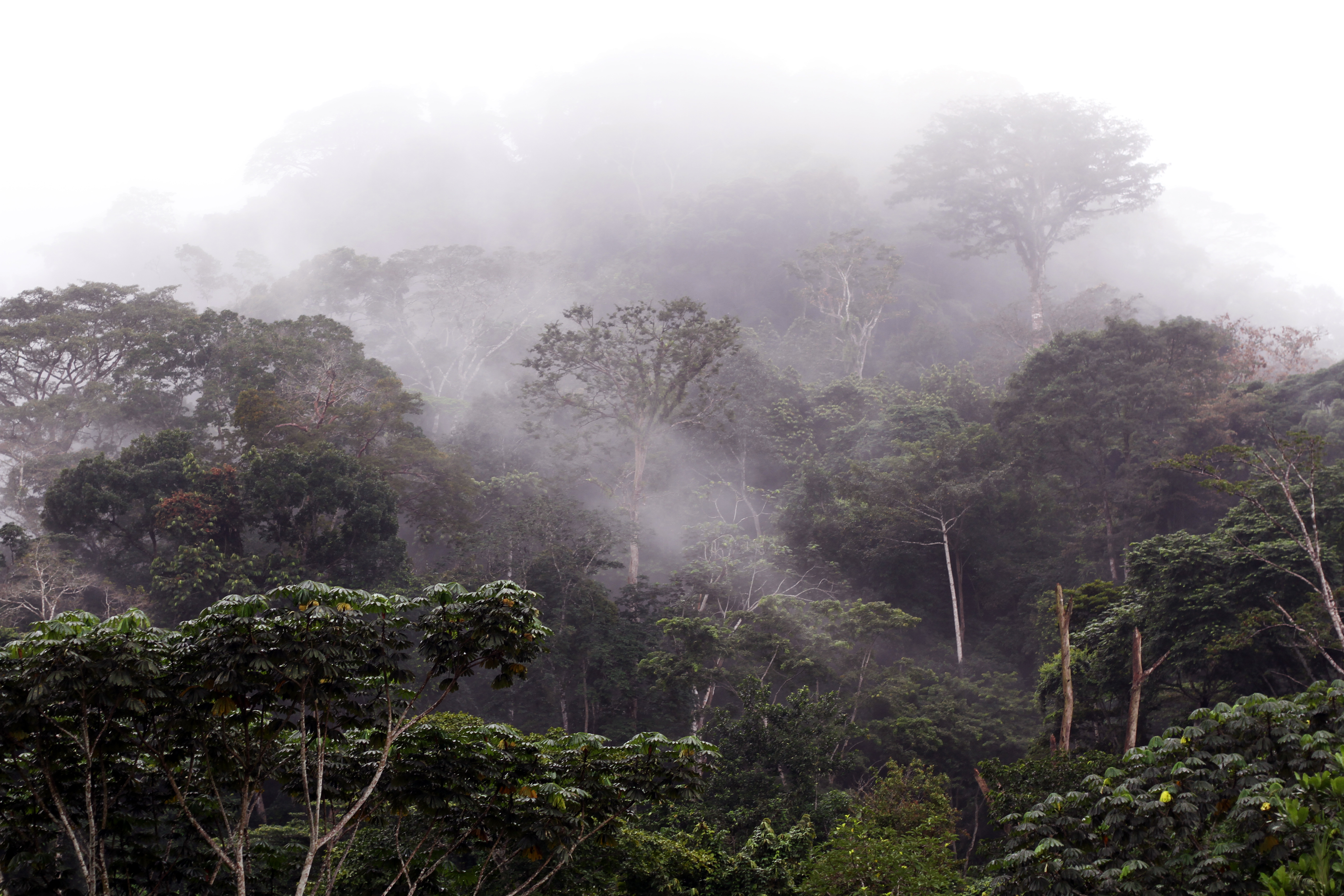 Tayap (Cameroon)